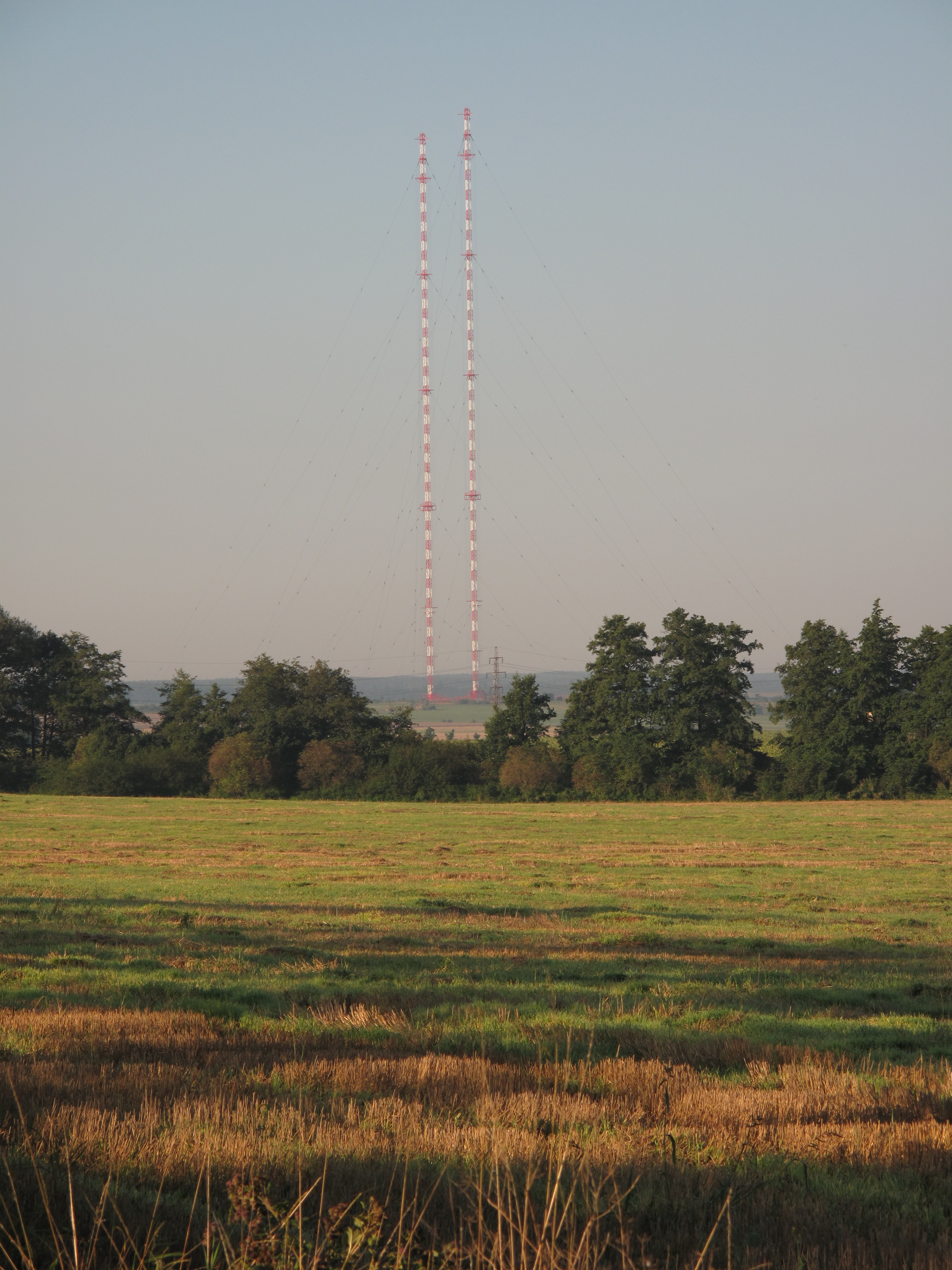 Liblice anthena from Klučov village, Kolín District, Czech Republic. In the front stubble field and treas in the surroundings of Bylanka Stream.